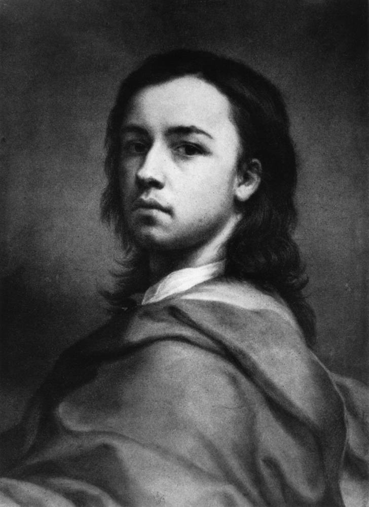 'Self portrait with blue coat', by Anton Raphael Mengs, painted in 1744. This painting was part of the collections of the Gemäldegalerie Alte Meister in Dresden and and it has been missing since the end of World War II, in 1945. - Dimensions: 55 x 42 cm - Pastel on paper